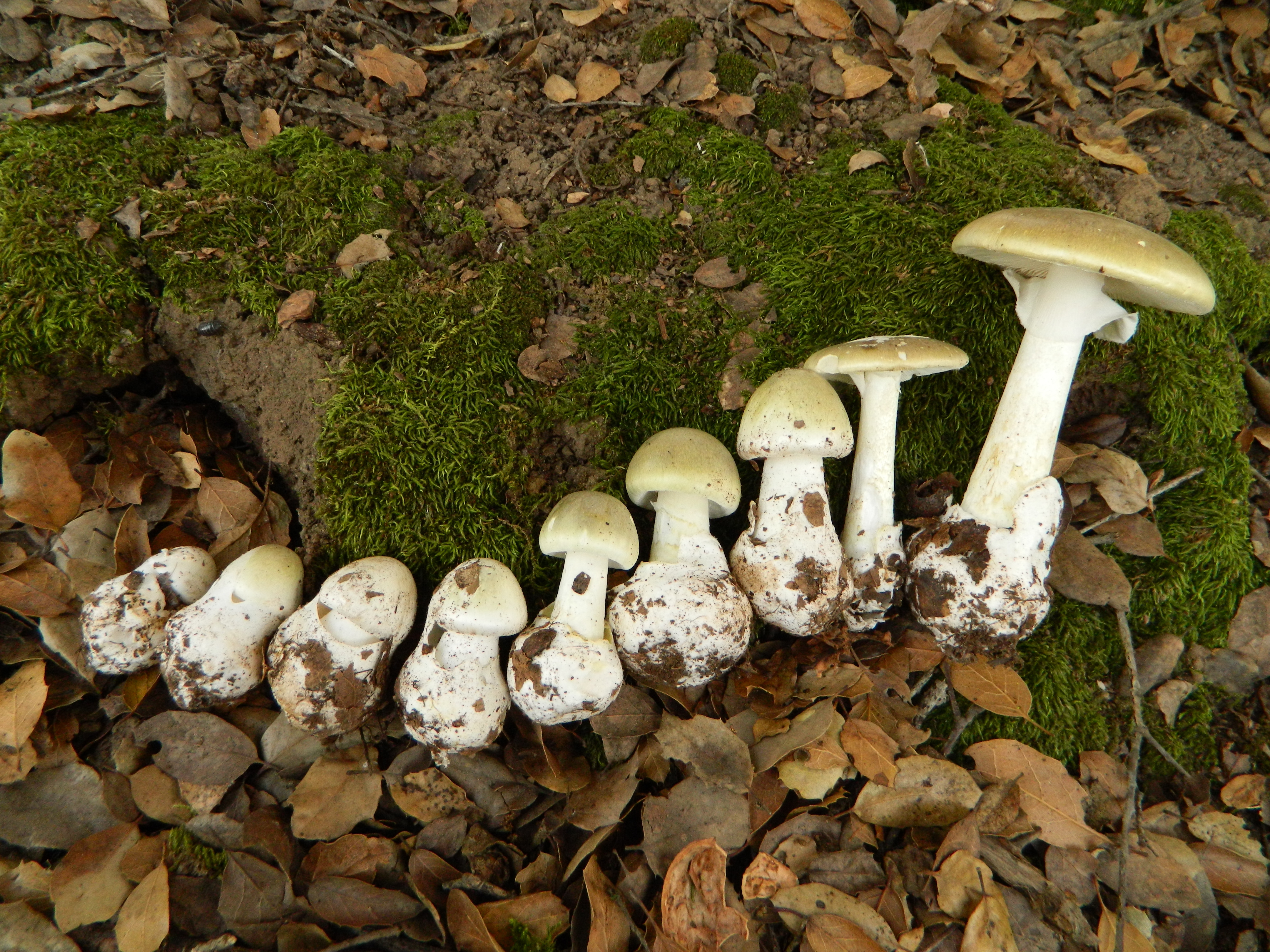 Amanita phalloides (Fr.) Link Image location: Watsonville, California, USA I felt a disturbance in the force, then there they were, I was surrounded,“its a trap!”. under oak greenish yellow smelly when older partial veil white gills volva sack Recognized by sight For more information about this, see the observation page at Mushroom Observer.